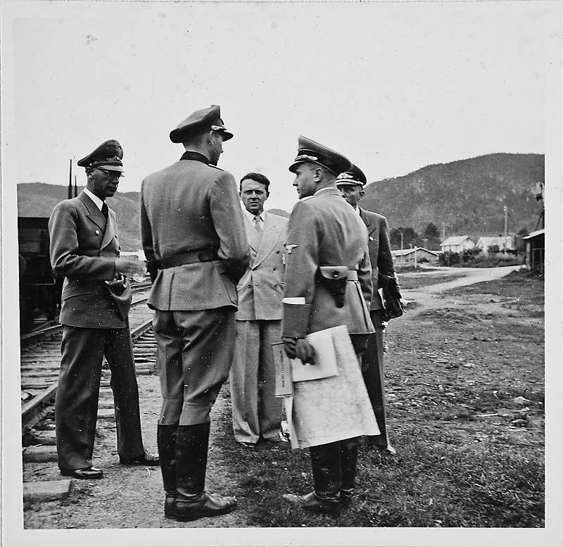 Image from "Photo Album from Terboven's journey to Nothern Norway and Finland 10–27 July 1942" (Mit dem Reichskommissar nach Nordnorwegen und Finnland 10. bis 27. Juli 1942), 375 images uploaded to www. by Riksarkivet (National Archives of Norway) 2012. See scanned album here